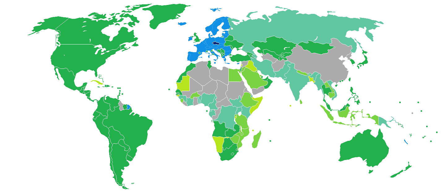 Visa requirements for Czech citizens Czech Republic Freedom of movement Visa not required Visa on arrival eVisa Visa available both on arrival or online Visa required prior to arrival